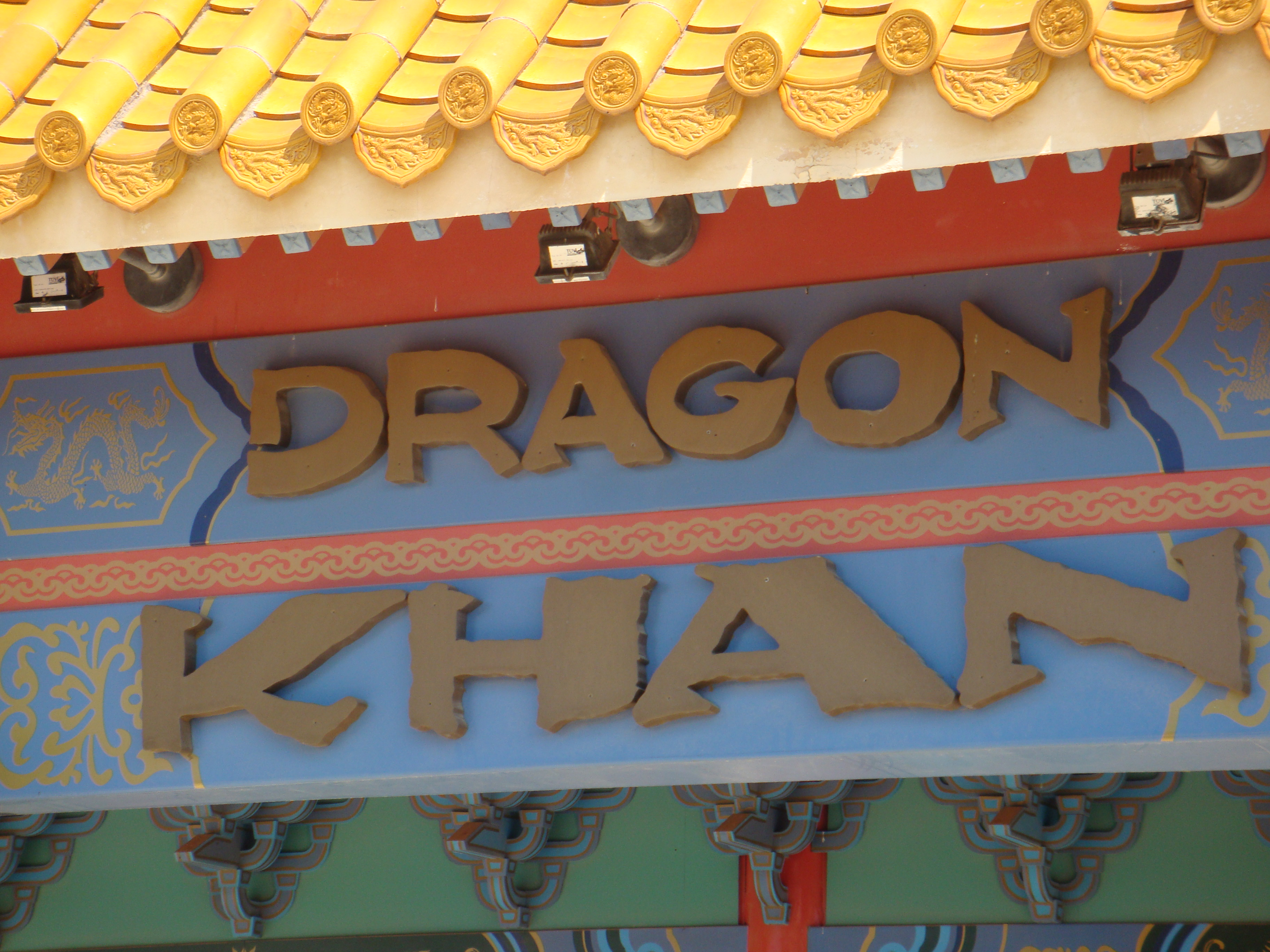 Logo